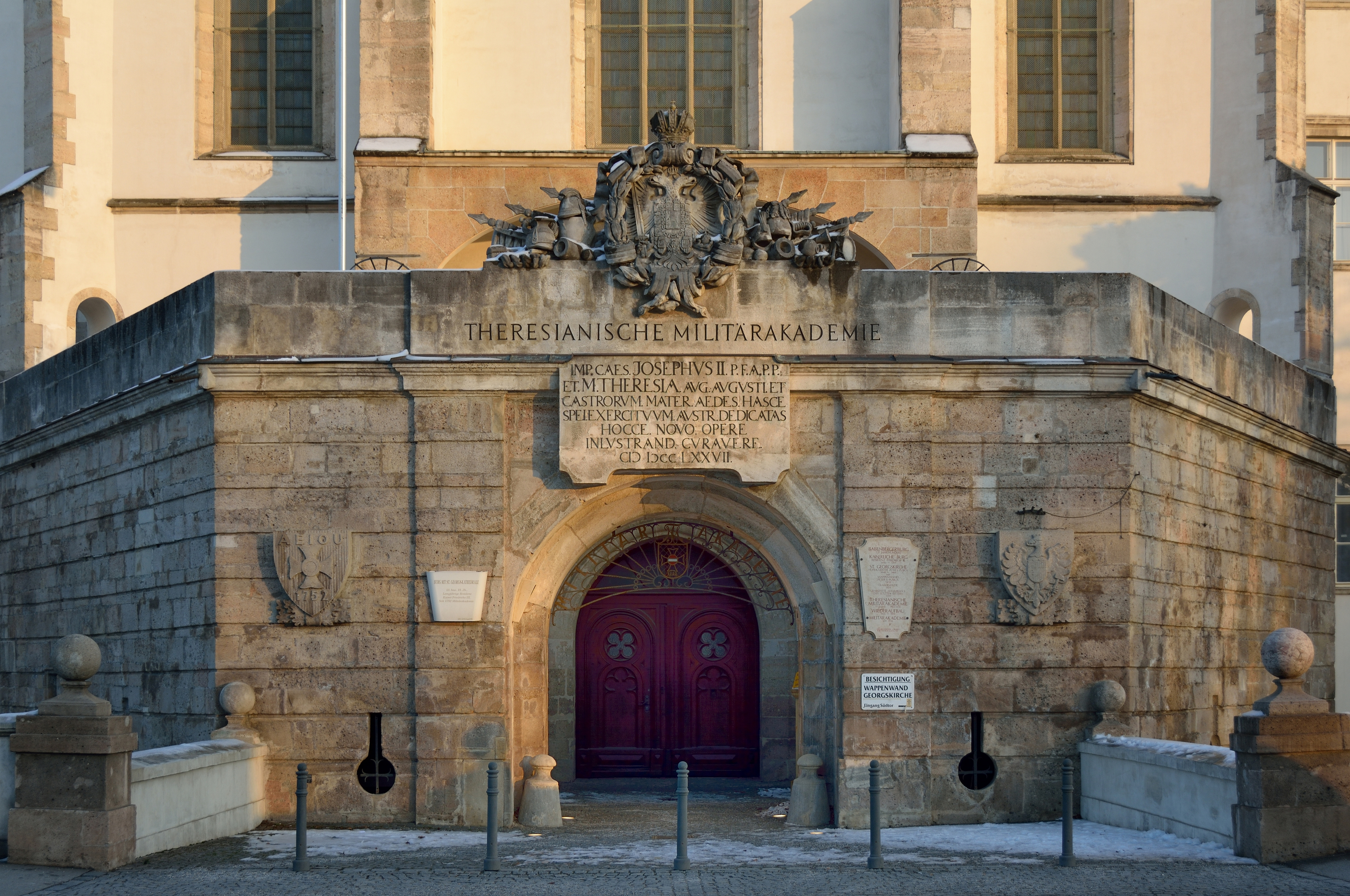 Entrance of Theresianische Militärakademie at Wiener Neustadt, Lower Austria